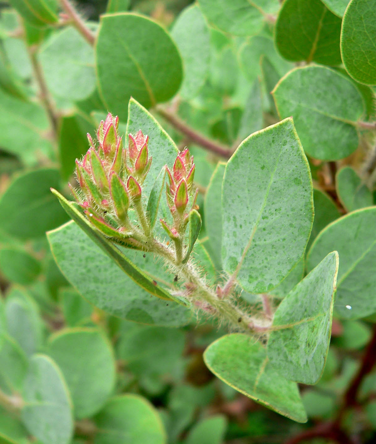 Arctostaphylos catalinae — Santa Catalina Island manzanita; leaves. At the Regional Parks Botanic Garden, Berkeley Hills, California.